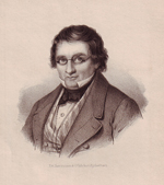 Magazine